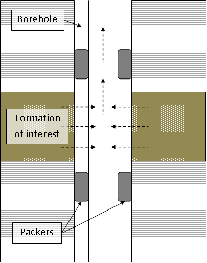 Diagram shows a drill stem test in a borehole.